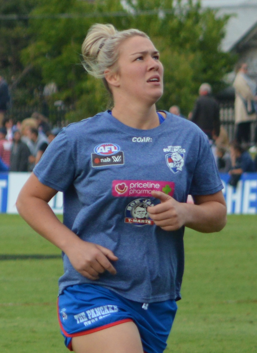 Courtney Clarkson during the round 3, 2017 AFL Women's match between the Western Bulldogs and Melbourne.